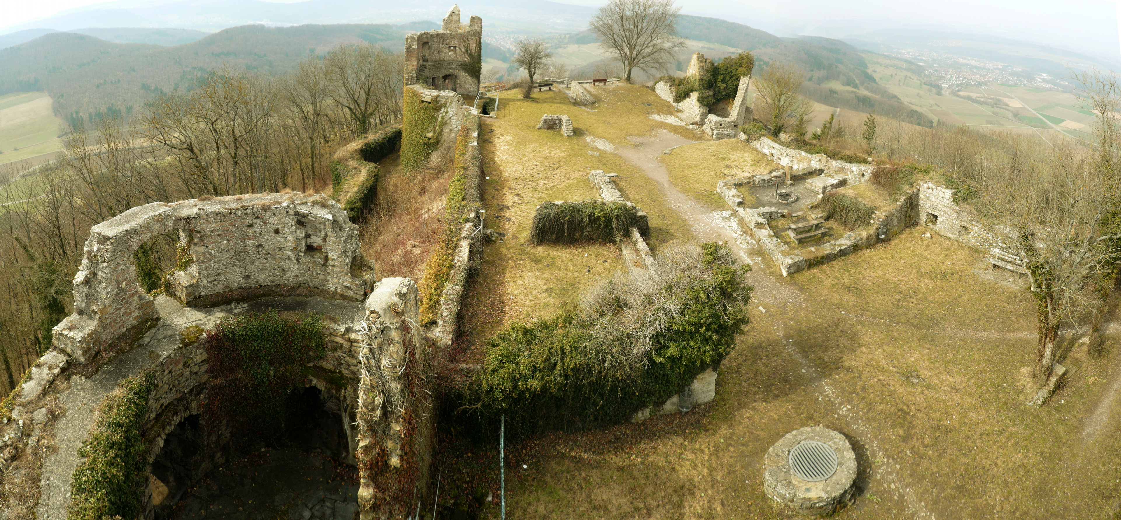 Kuessaburg